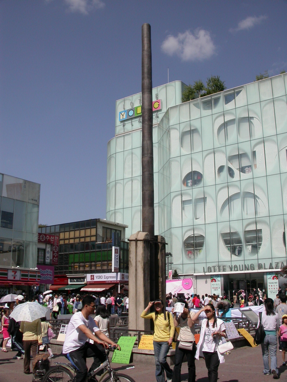 Cheongju Yongdusaji Dangan